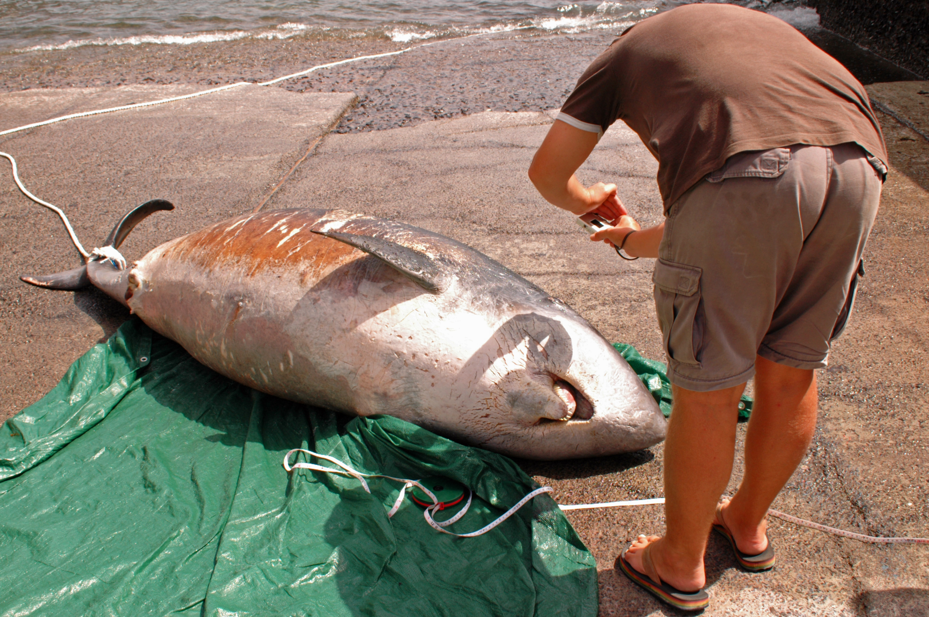 Pygmy sperm whale (dead)